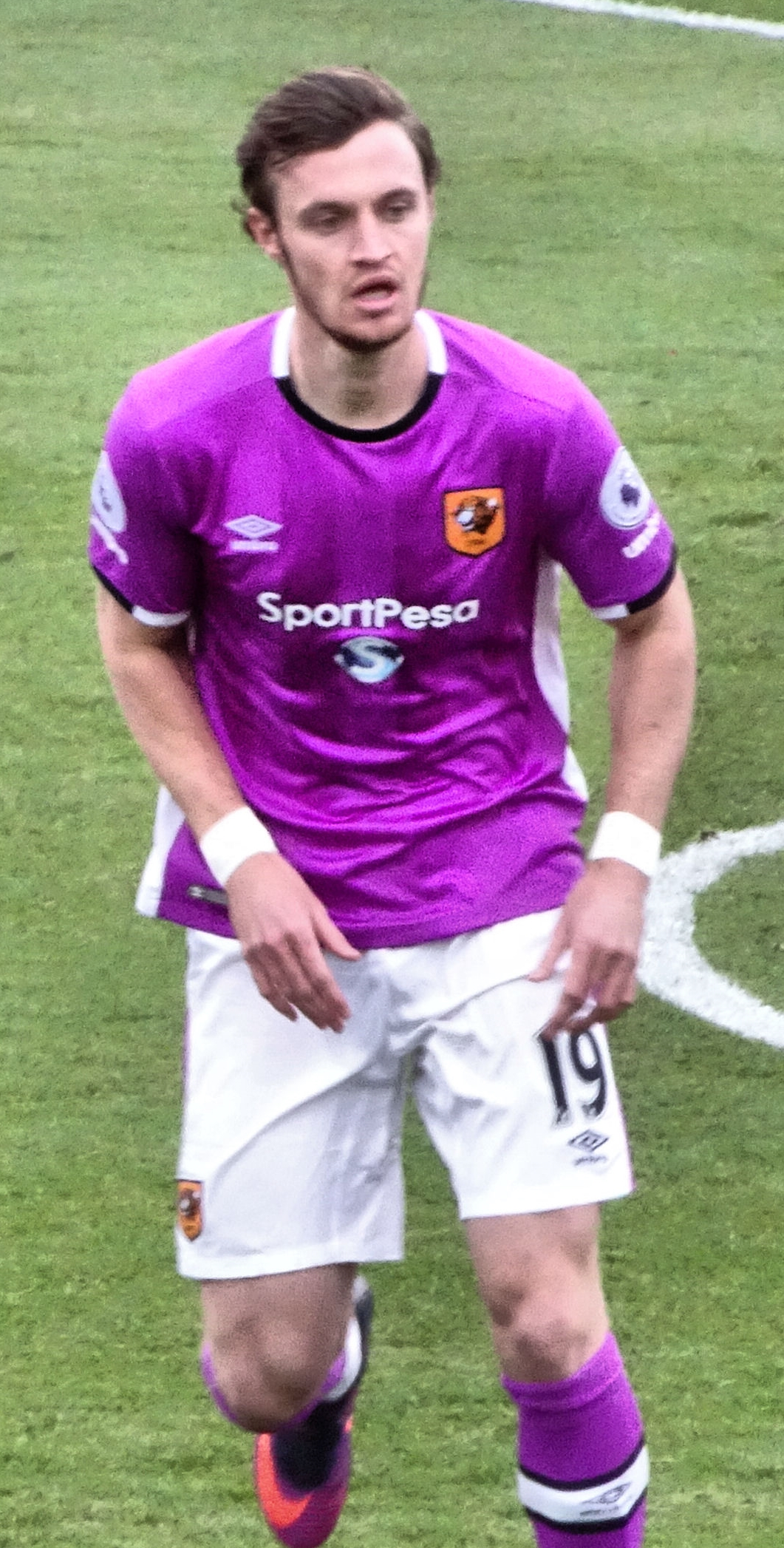 Will Keane playing for Hull City against Bournemouth at Dean Court, Bournemouth on 15 October 2016